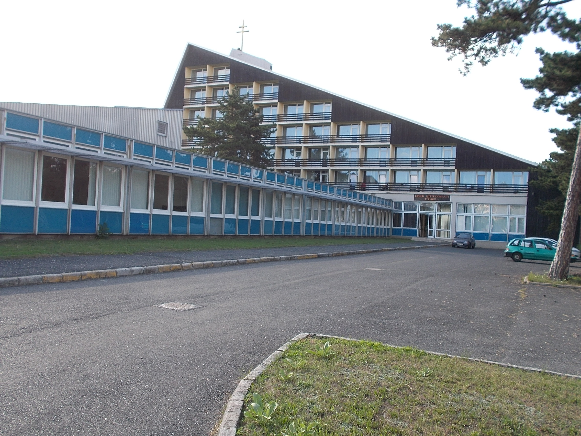 College of Theology. - Veszprém, Veszprém County, Hungary.